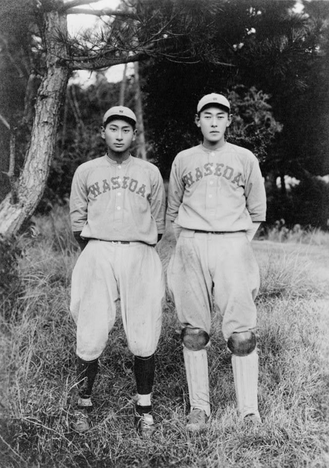 Two baseball players from Waseda University's baseball team, catcher J. Nagano and second baseman J. Kuji.